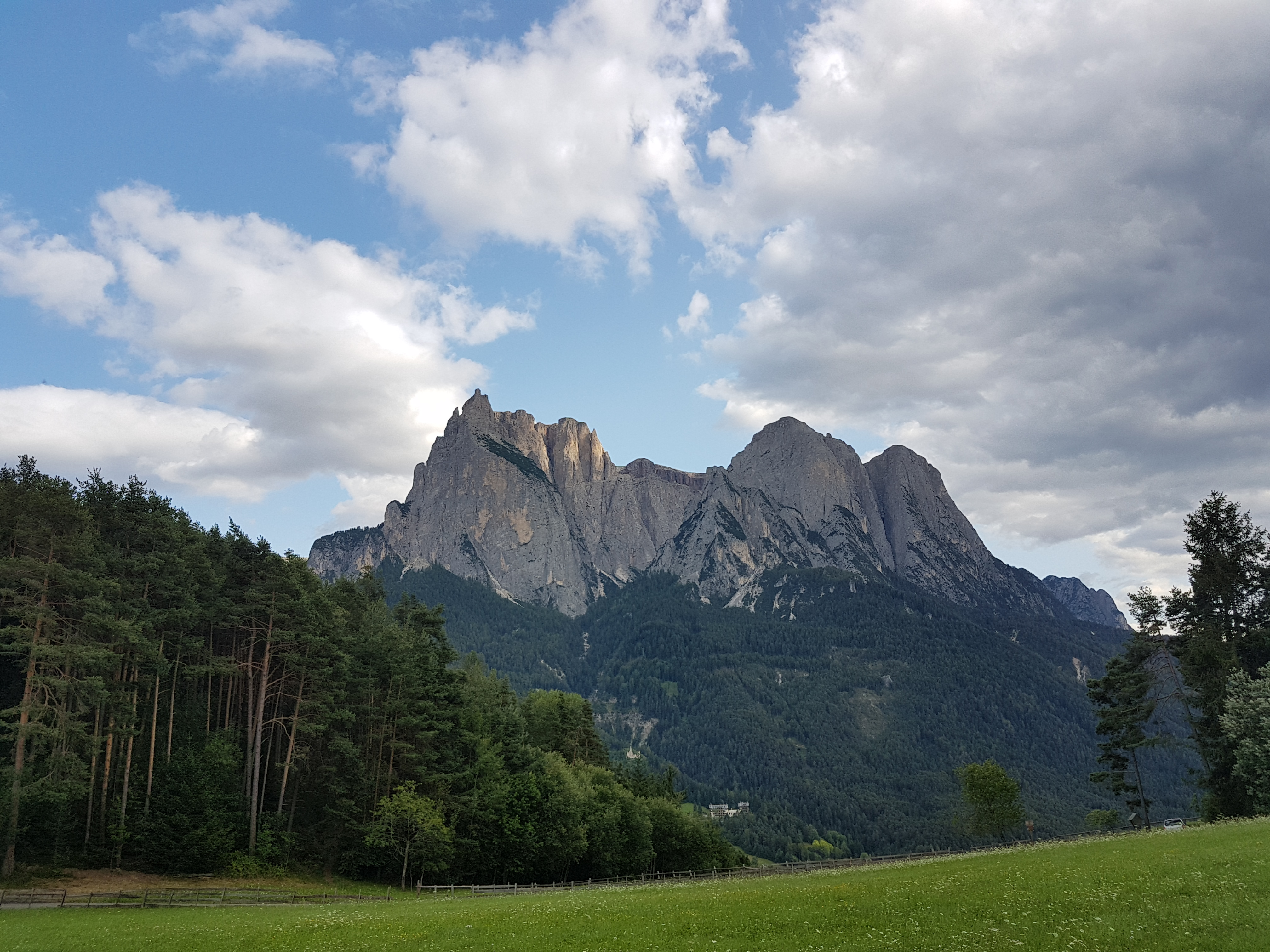 The Schlern group looked from Kastelruth